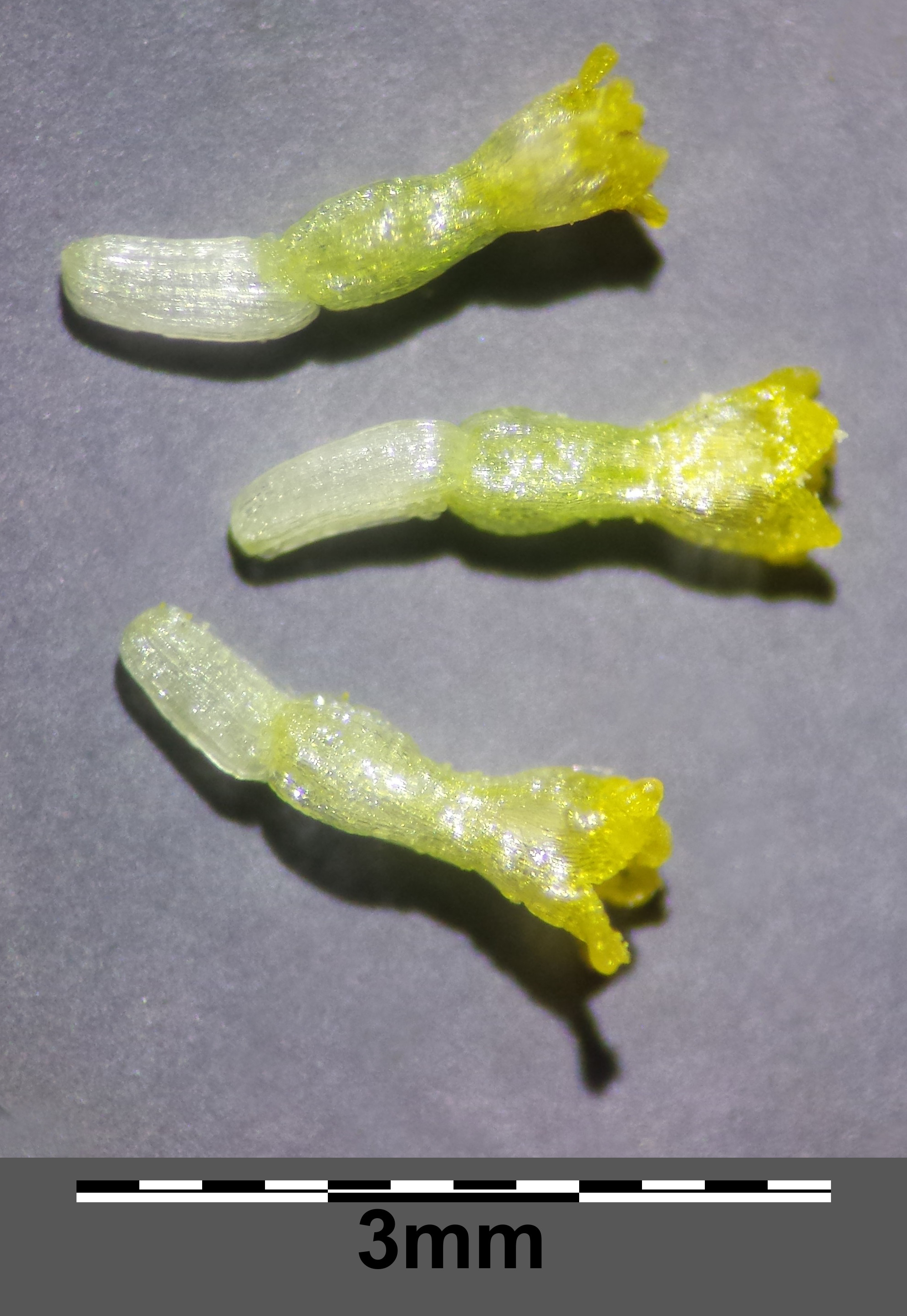 Tubular florets Taxonym: Matricaria chamomilla ss Fischer et al. EfÖLS 2008 ISBN 978-3-85474-187-9 Location: pond near Michelstetten, district Mistelbach, Lower Austria - ca. 250 m a.s.l. Habitat: shore of a pond